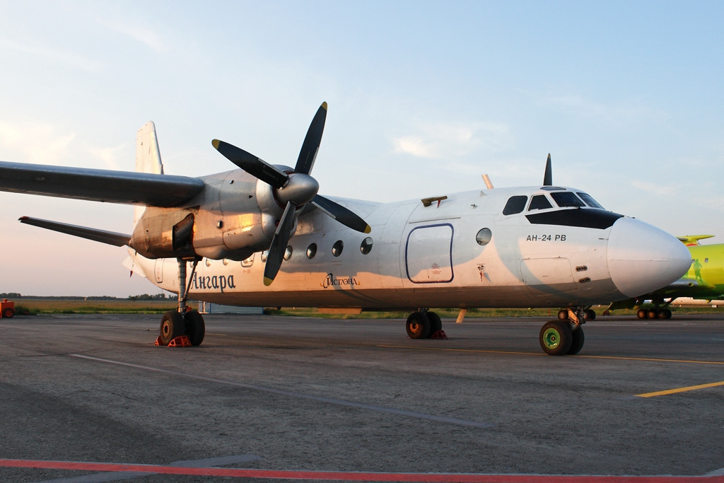 Ex Tatarstan. Evening view.